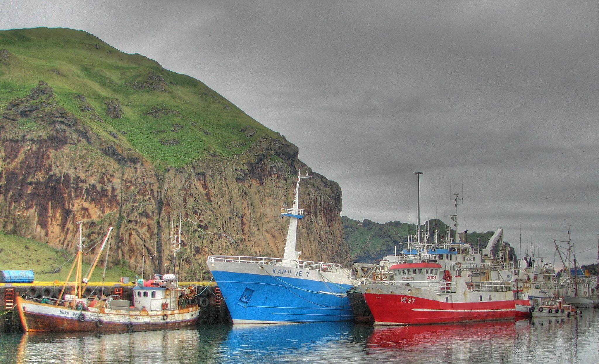 Ships at harbour by Heimaey, Iceland.